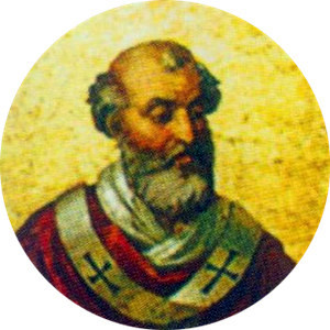 Portait of Pope John IV in the Basilica of Saint Paul Outside the Walls, Rome